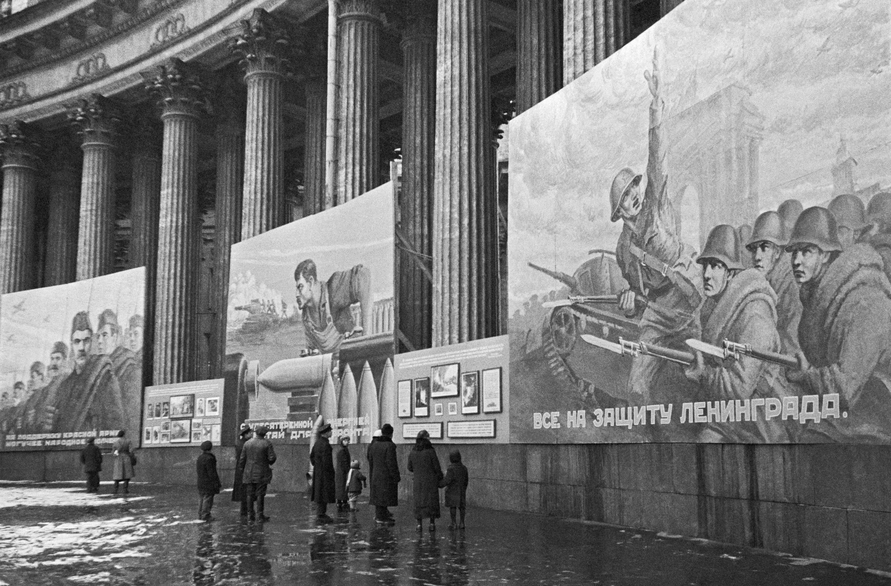 “Placards on facade of the Kazan Cathedral in Leningrad, October 1941”. Placards on the facade of the Kazan Cathedral in Leningrad, October 1941.